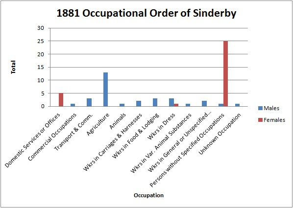 a graph showing the occupations of residents in sinderby in 1881